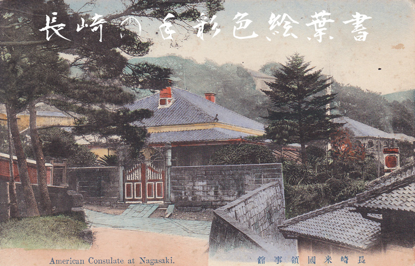 Japanese hand tinted postcard of the American Consulate in Nagasaki